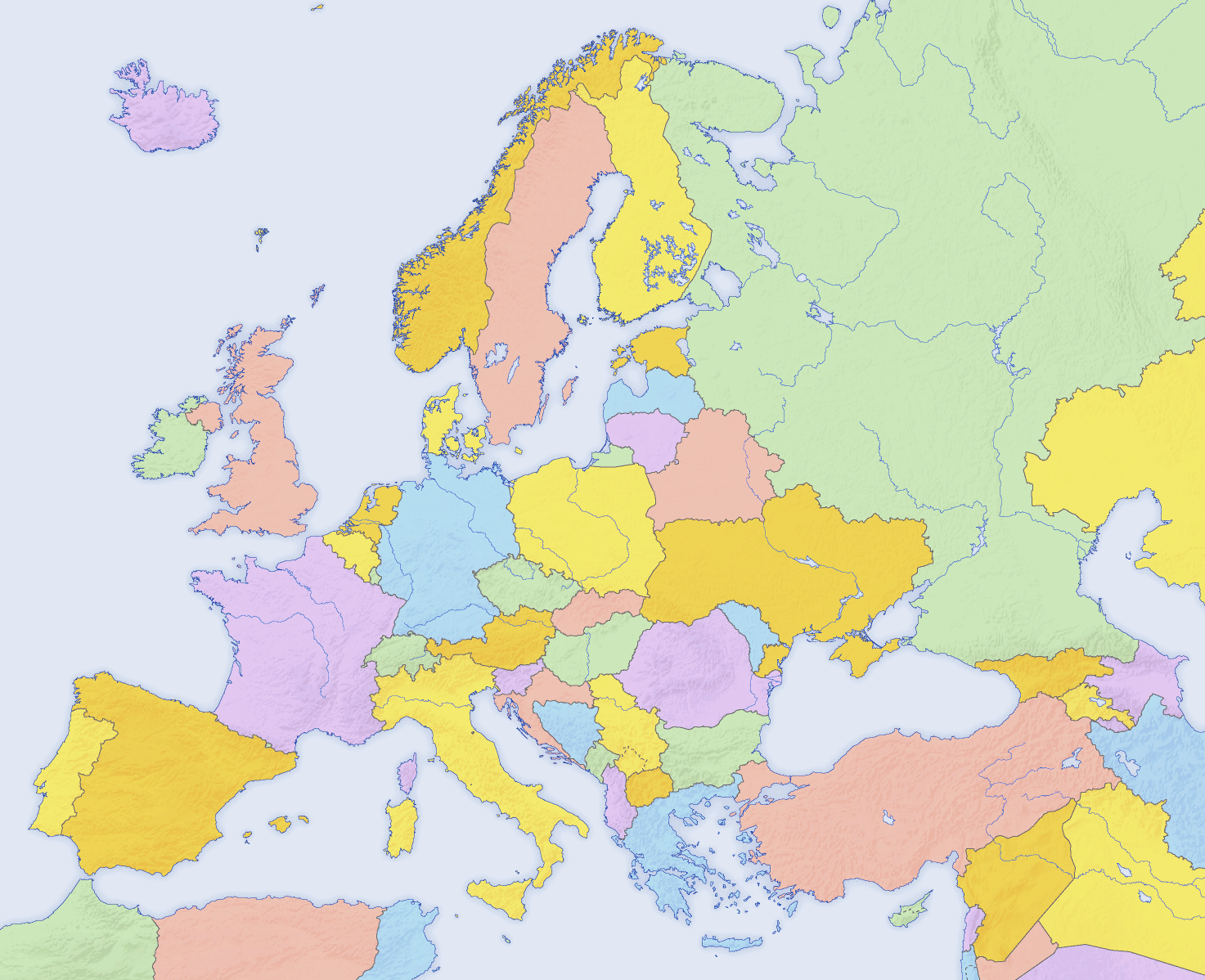 Map of countries in Europe and the surrounding region